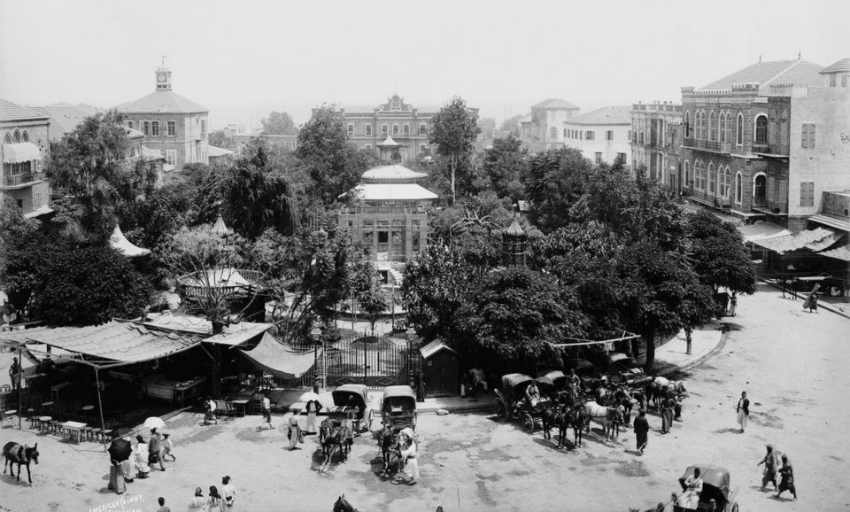 The Place des Canons, the current Martyrs' Square and the small Serail in the background.